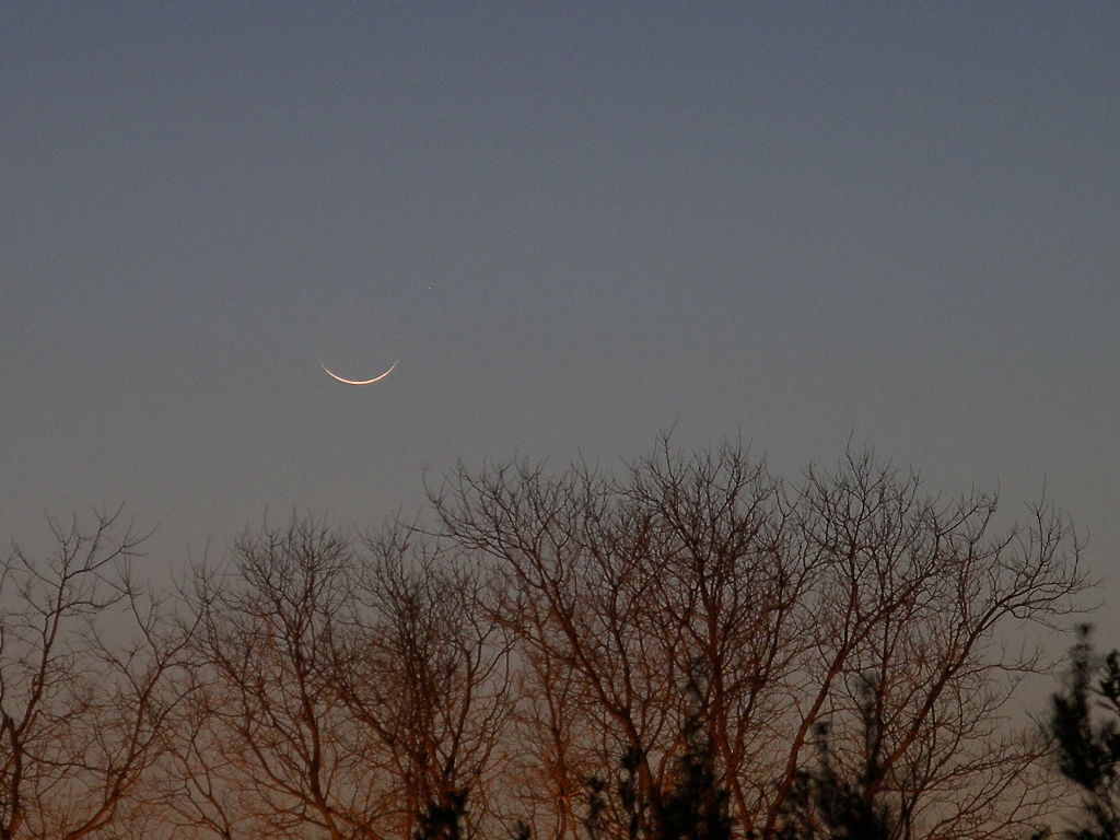 A hilal or slight crescent moon indicating the start of the fasting month of Ramadan in the Islamic calendar.